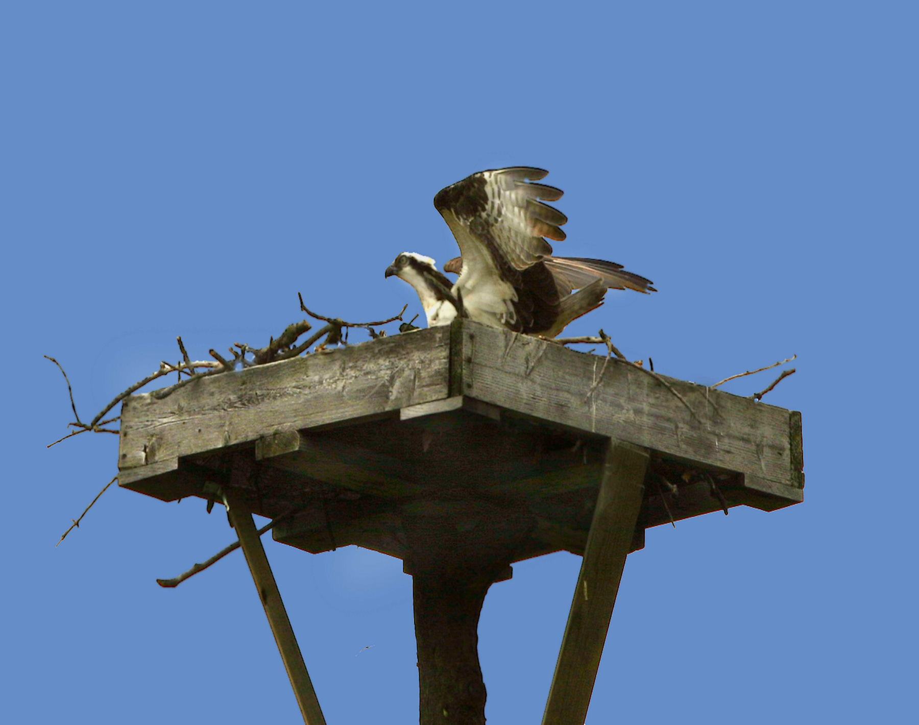 An osprey landing on the tower built at Hartman Reserve to attract more osprey to the reserve.